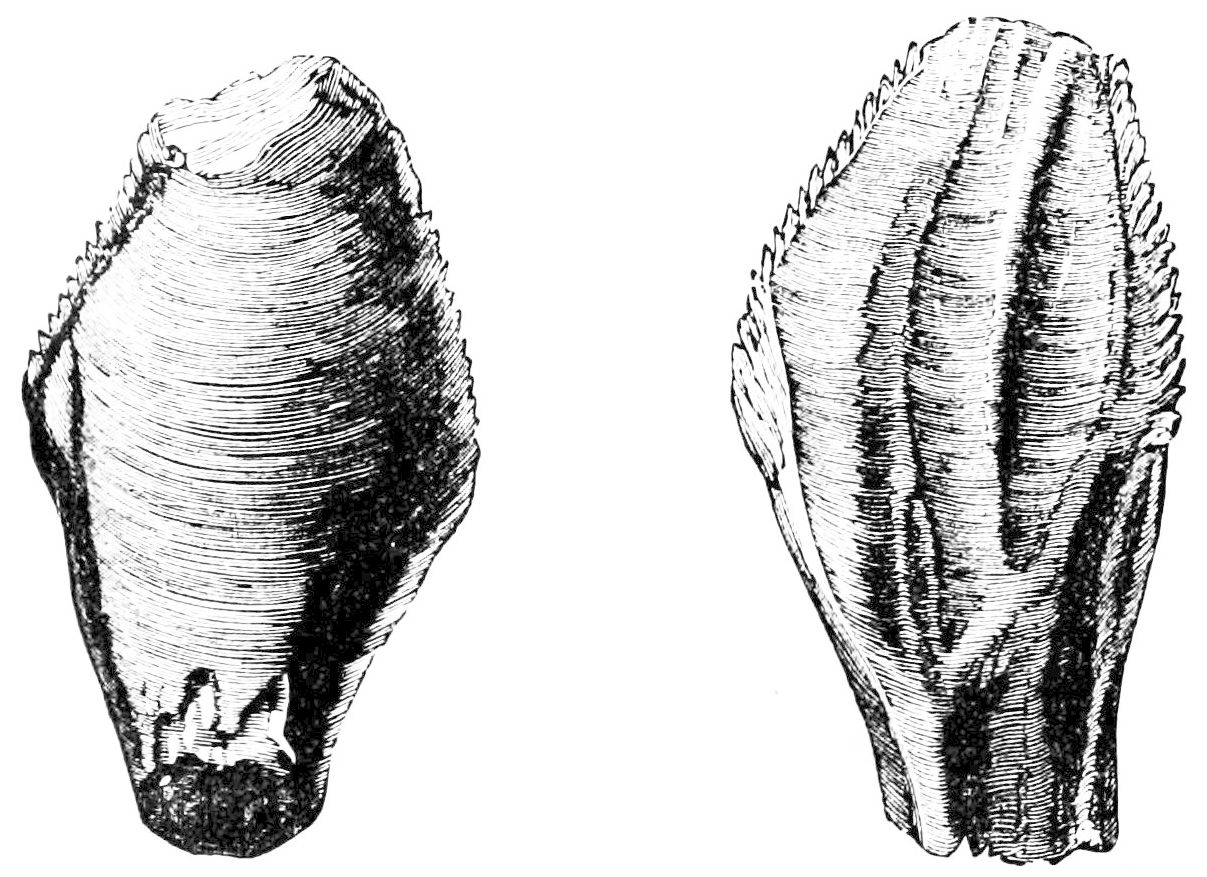 Teeth of Iguanodon